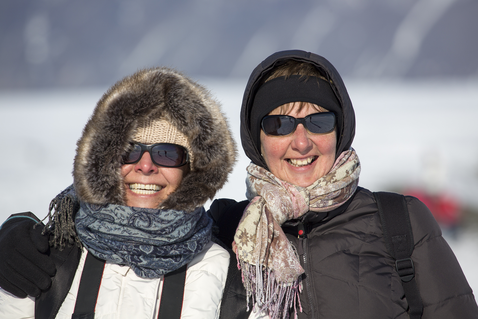 Women in Iceland wearing winter clothing